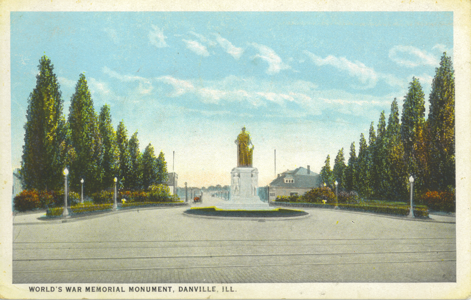 Postcard showing World's War memorial monument in Danville, Illinois, USA